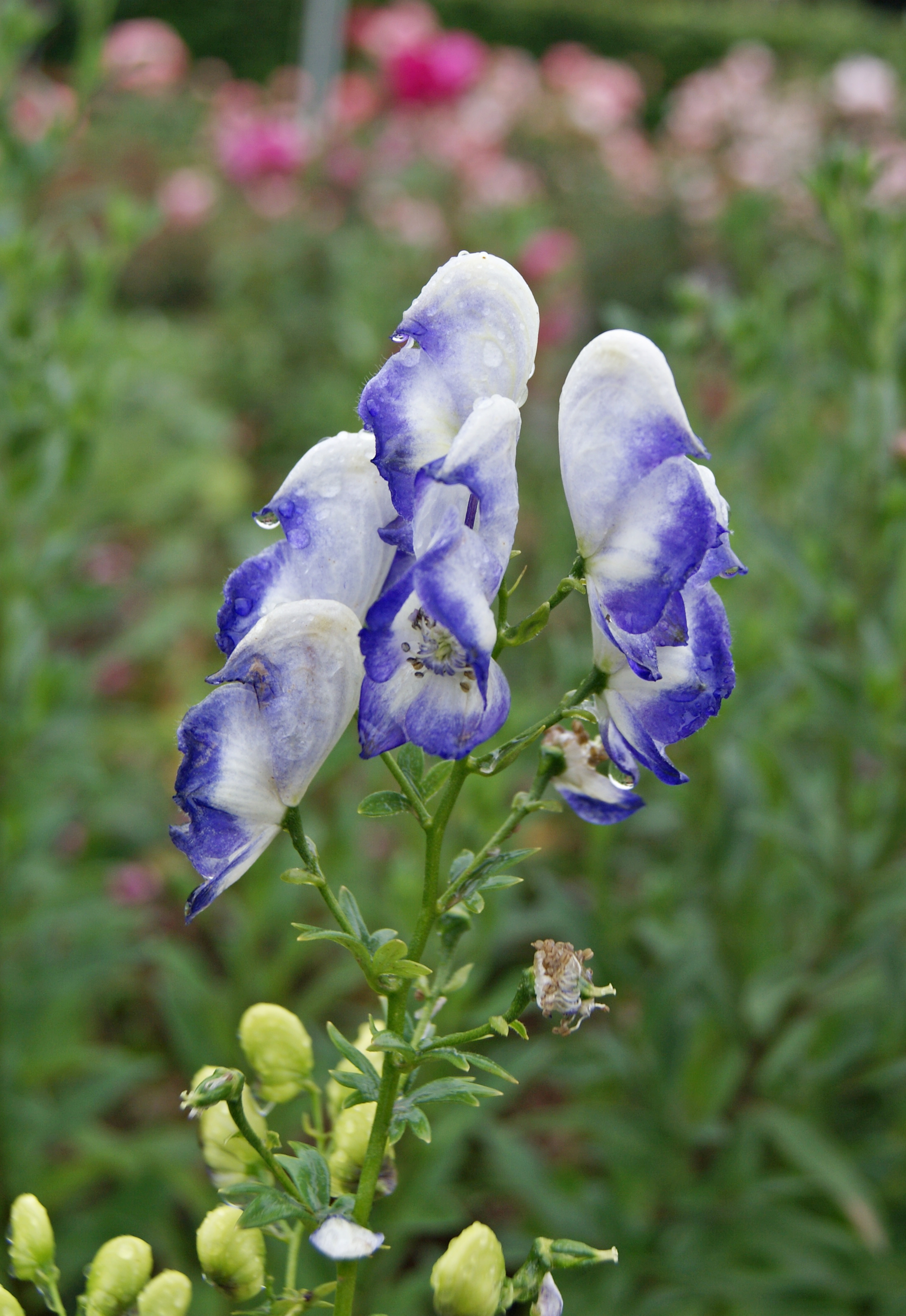 Aconitum × cammarum